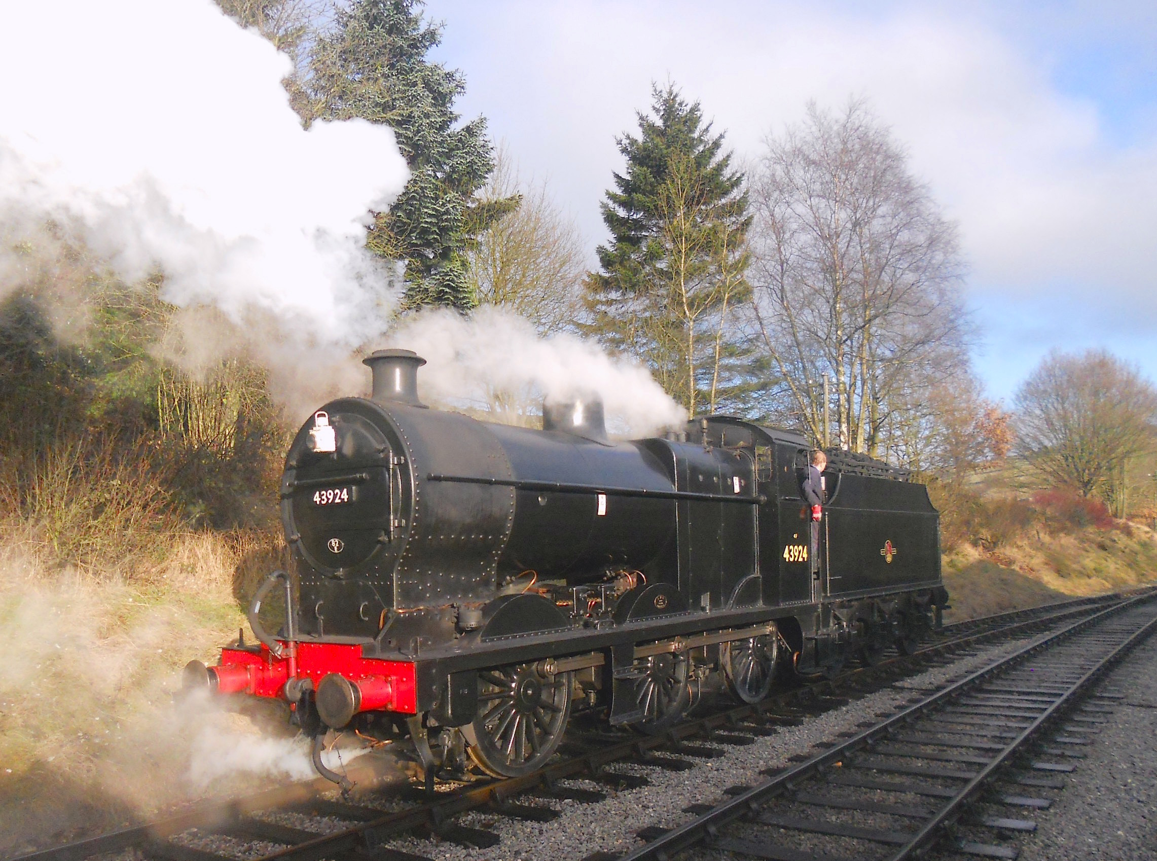 British Railways (Midland Region) 0-6-0 Class 4F No. 43924 at Oxenhope on the Keighley and Worth Valley Railway